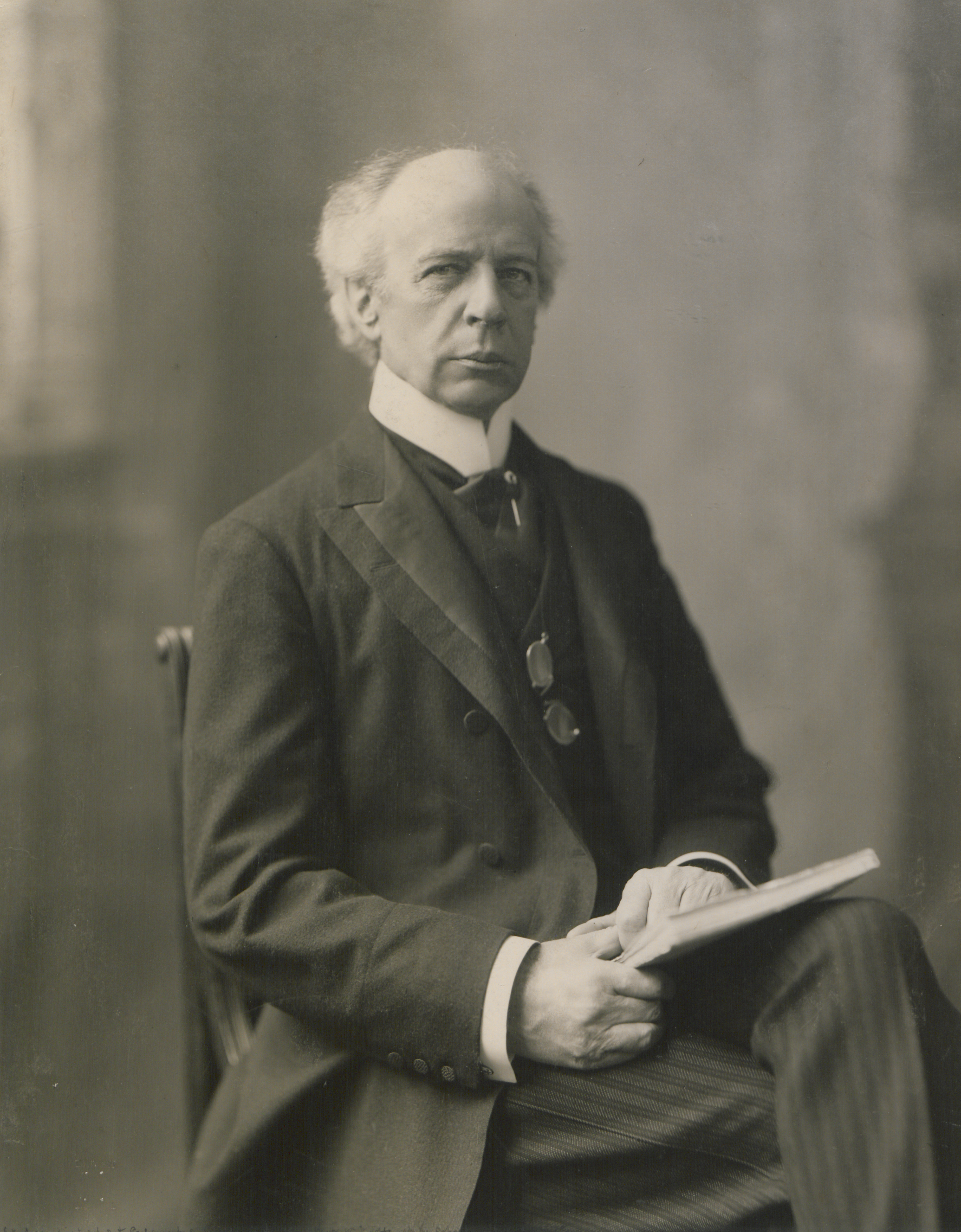 The Honourable Sir Wilfrid Laurier. Photo A.